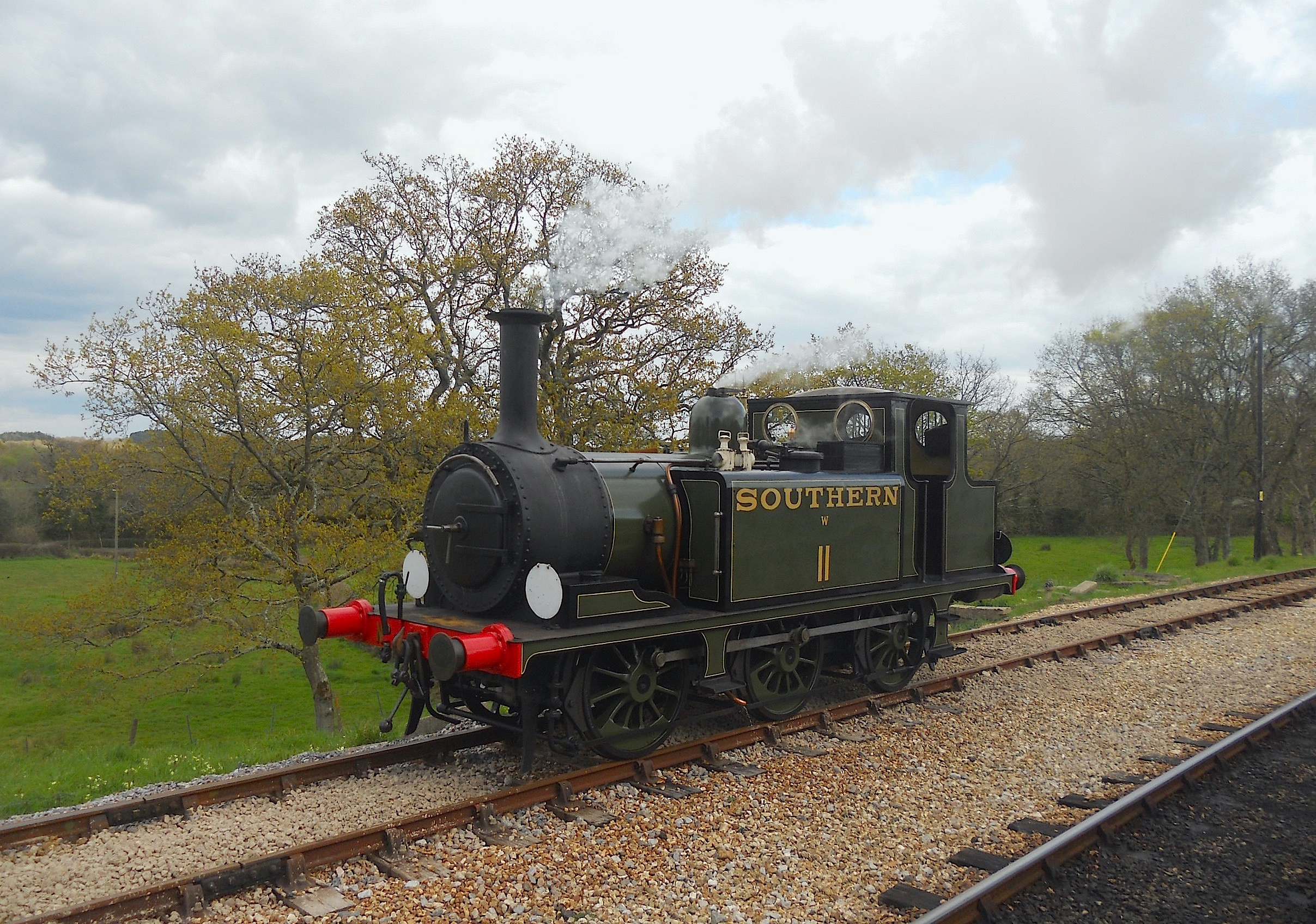 Southern 0-6-0T Class A1X/Terrier W11 runs round the train at Wootton on the Isle of Wight Steam Railway